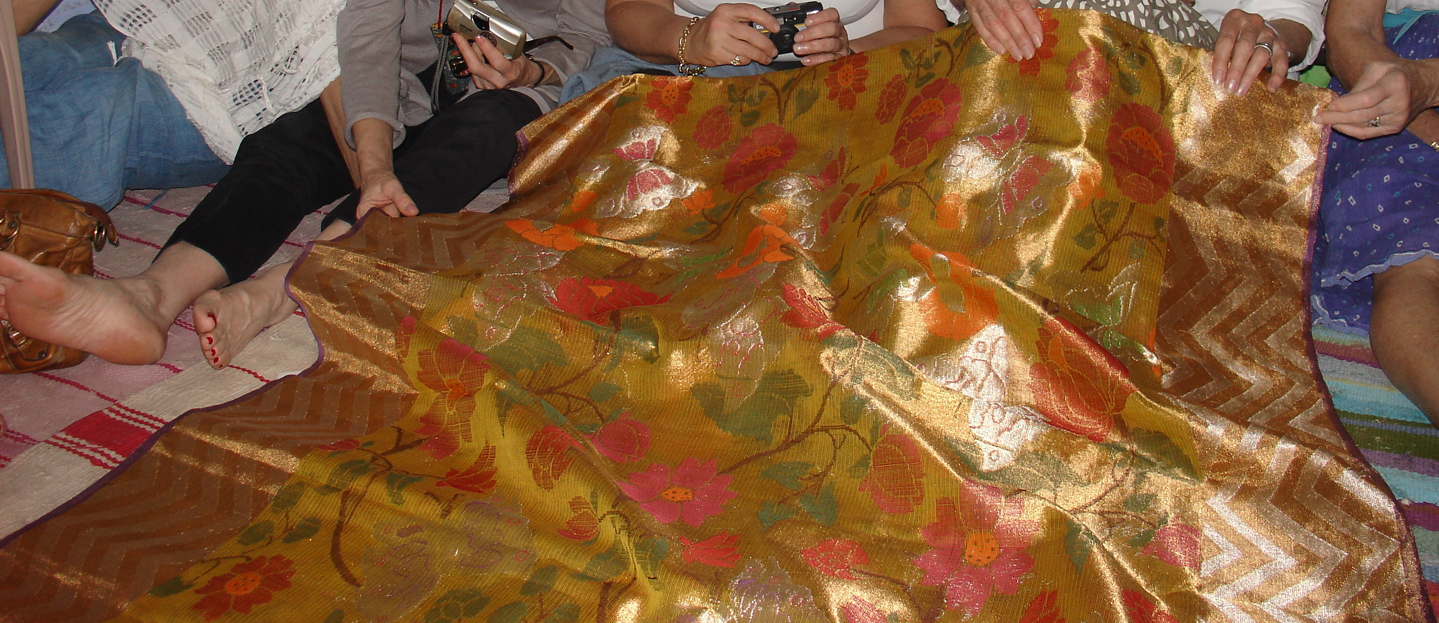 A genuine handloom kota doria saree from Kaithoon, Kota, Rajasthan.